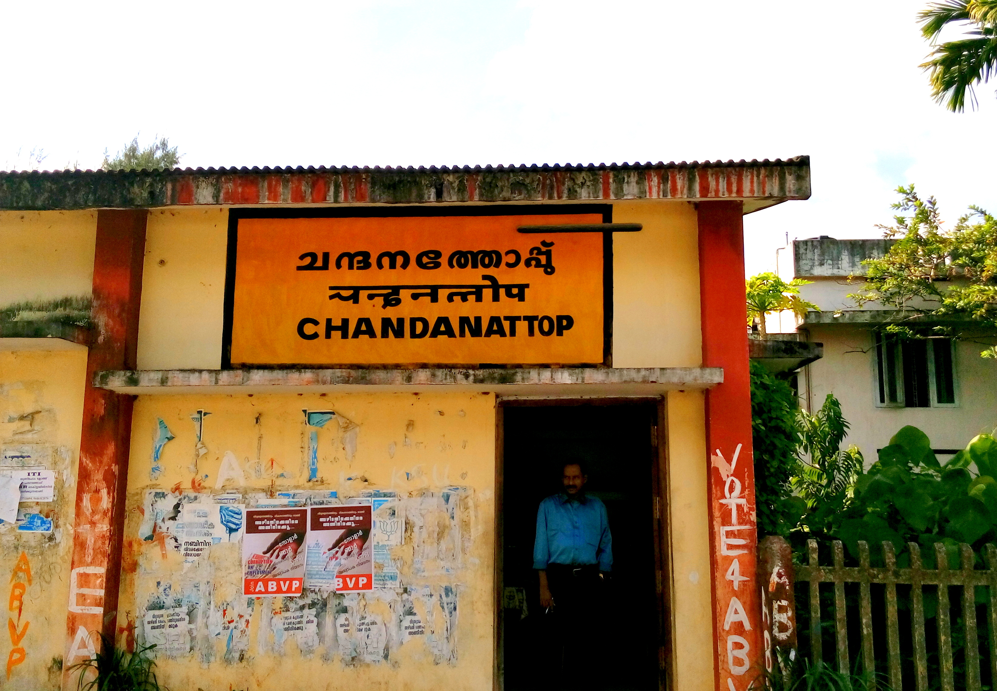 Chandanathoppe railway station is situated on the borders of Kollam city, Kerala